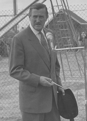 His Excellency the Governor Sir Robert George opening the Le Messurier and John Bailey Playground. Date of original: 1956 News (Adelaide) Monday 29 November 1954 Donations Used for Reserve Money donated more than 15 years ago is to be used for constructing two children's playgrounds on reclaimed swamplands on Hart Street Oval Reserve, Ethelton. Port Adelaide town clerk, Mr. A. S. Upton, said this today. "Work will commence immediately." Money for the project, costing about £1,000, was donated by the late Mr. Roy LeMessurier and the late Mr. James Bailey, both former prominent Port Adelaide citizens. When completed in March, 1955, ovals will be named after the two men. When completed, the reserve would include one soccer ground, two hockey grounds, six basketball courts, two children's playgrounds, public ameni ties, and dressing rooms, Mr.Upton added.